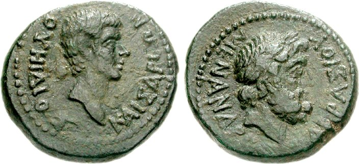 LYDIA, Tralles. Augustus. 27 BC-AD 14. Æ 20mm (5.83 g, 12h). Vedius Pollio, legate of Asia; Menandros, son of Parrhasios, magistrate. OUHDIOS KAISAREWN, bare head of Vedius Pollio right / MENANDROS PARRASIOU, laureate head of Zeus right. RPC I 2635.17 = Stumpf 157p (this coin); Imhoof-Blumer, Lydische pp. 174-5; SNG München 718; SNG von Aulock -; BMC 76-8; SNG Copenhagen 688. Good VF, black-green patina with olive overtones.